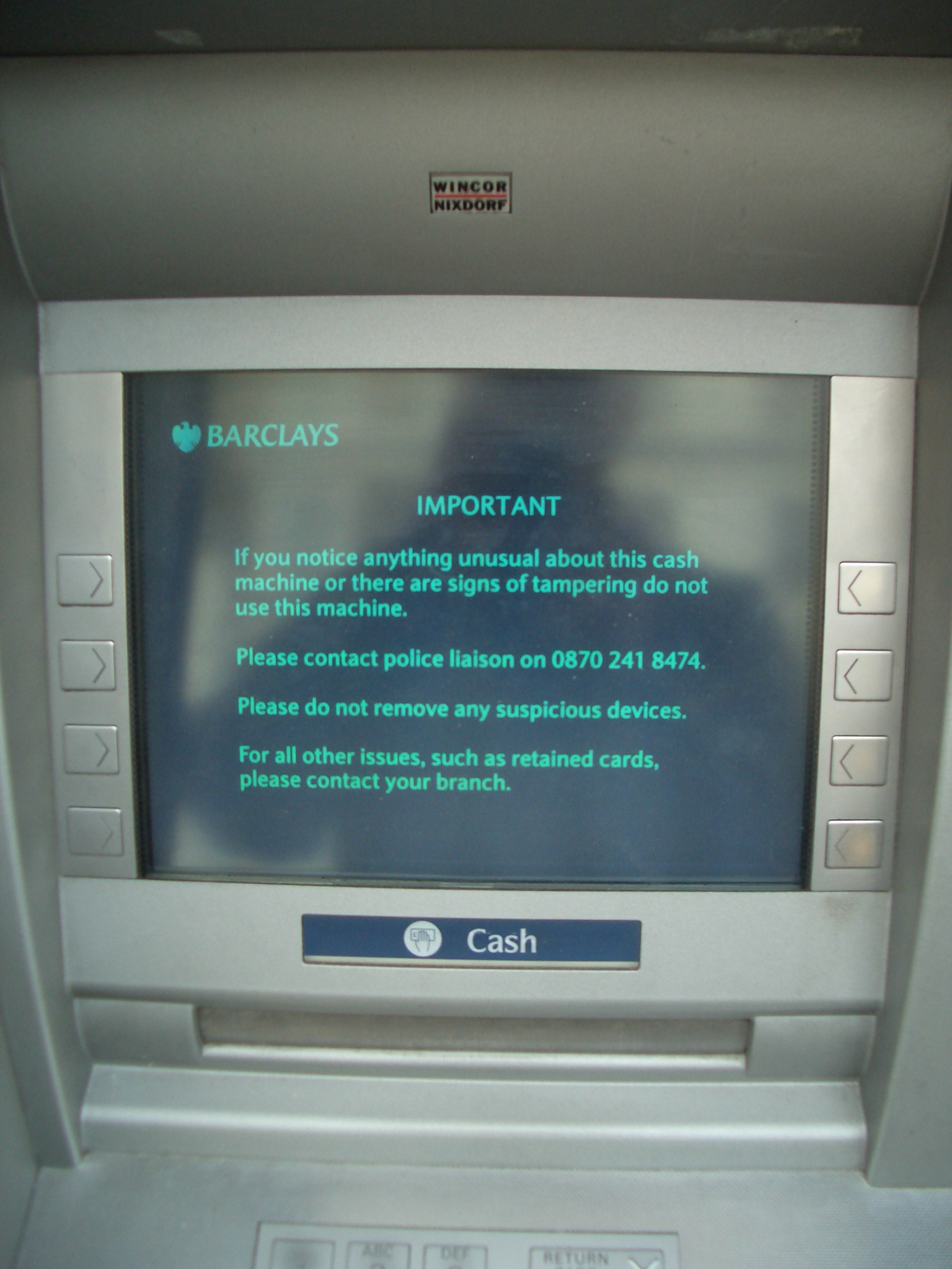 Tamper warning on ATM in London. Wincor-Nixdorf Procash 2050 Cash Dispenser.